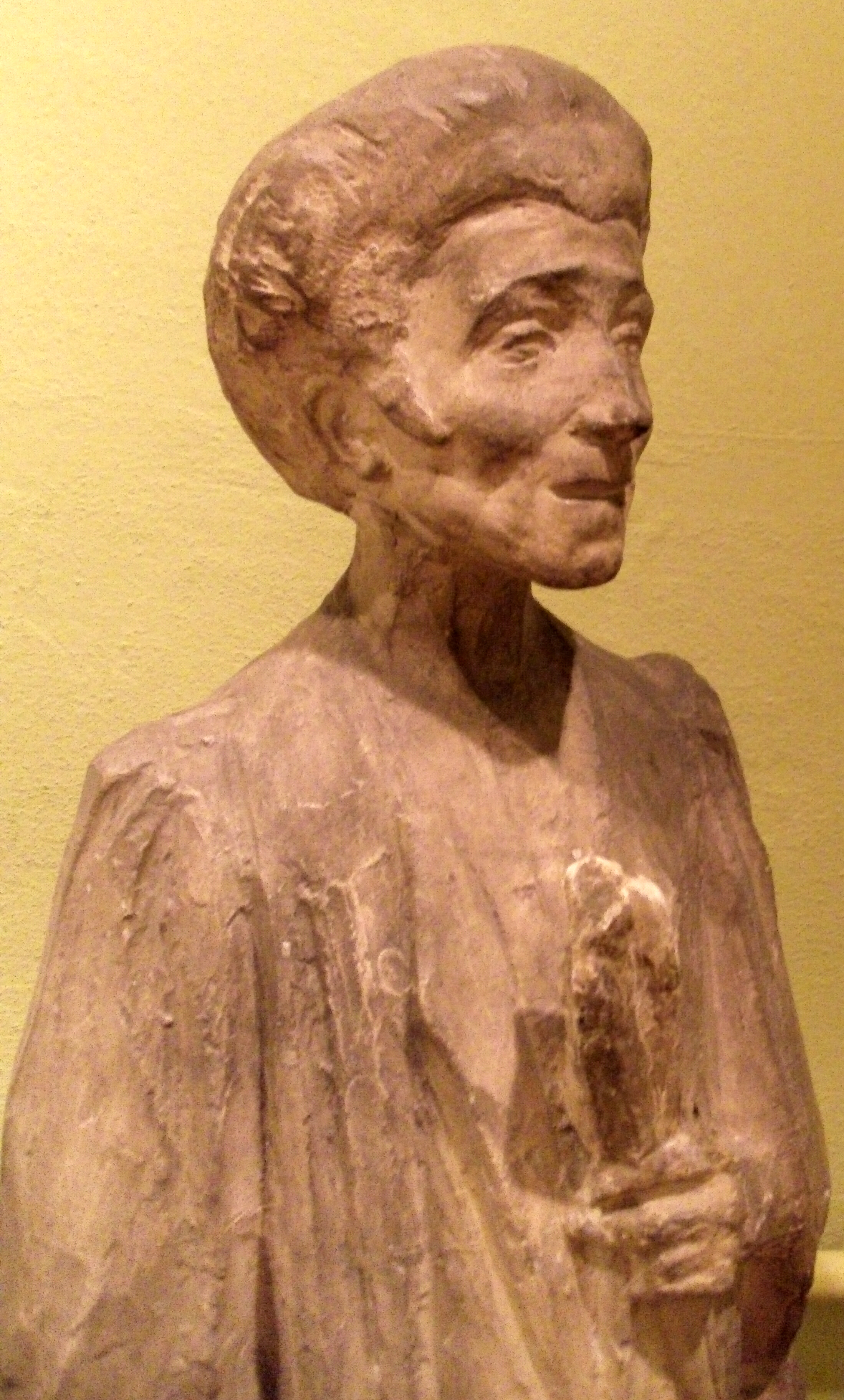 Olga Boznanska - terracotta sculpture by Ludwik Puget made ​​before 1914.